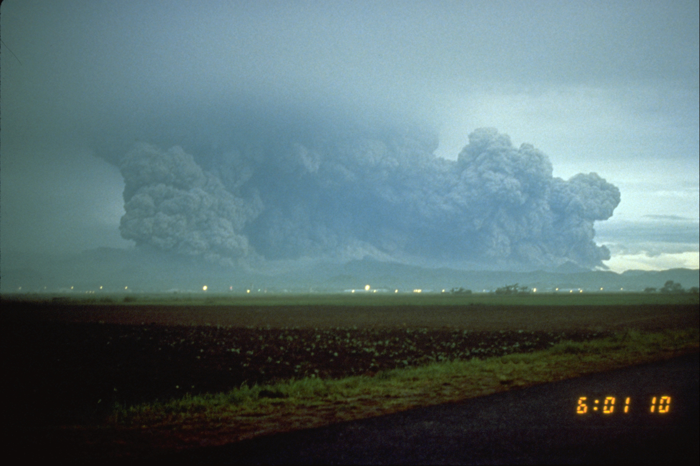 Mount Pinatubo at daybreak on June 15, 1991, a few minutes after the start of the climactic eruption.